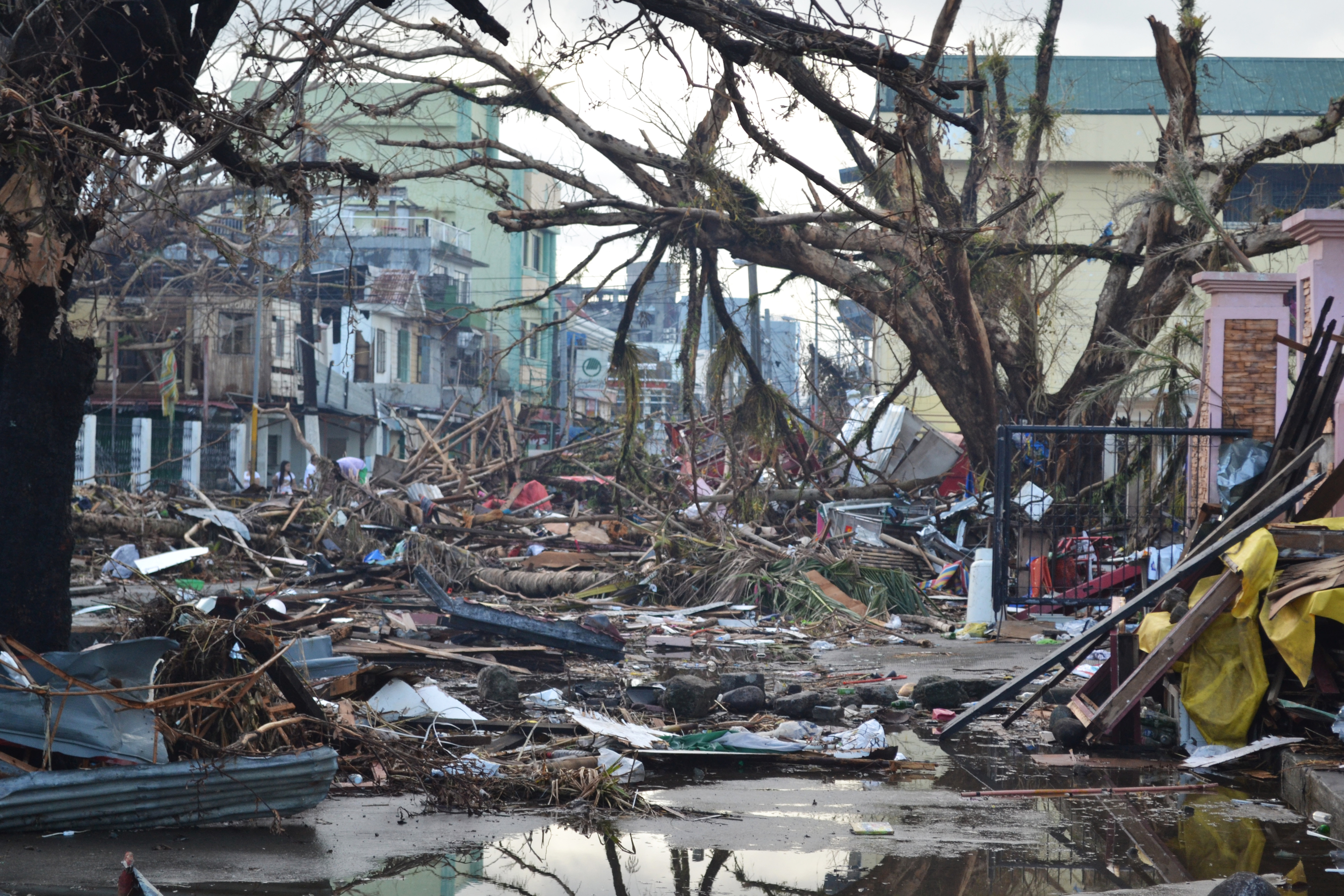 Debris lines the streets of Tacloban, Leyte island. This region was the worst affected by the typhoon, causing widespread damage and loss of life. Caritas is responding by distributing food, shelter, hygiene kits and cooking utensils. (Photo: Eoghan Rice - Trócaire / Caritas)